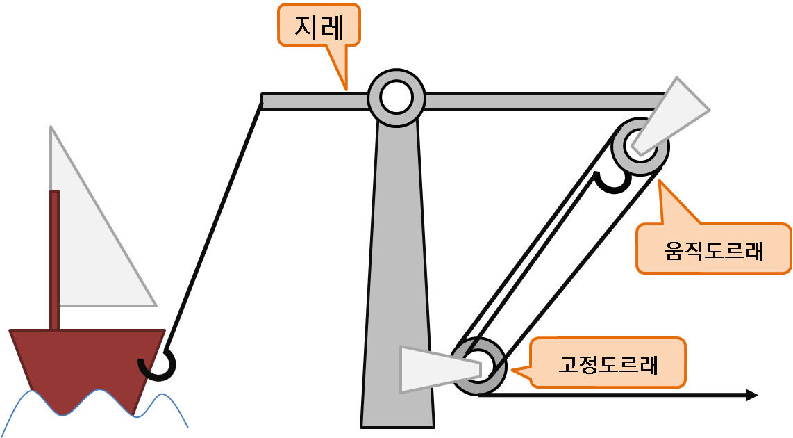 a illustration about Archimedes claw which be imaged by guess